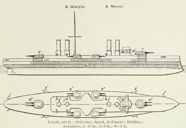 Right elevation and Deck Plan of Italian San Giorgio class armoured cruiser Numbers on top diagram show armour thickness (shaded areas) in inches. Numbers on bottom diagram show size of guns in inches. (Note that calibre of secondary amrmament is 7.5 in (190 mm) not 8 in)